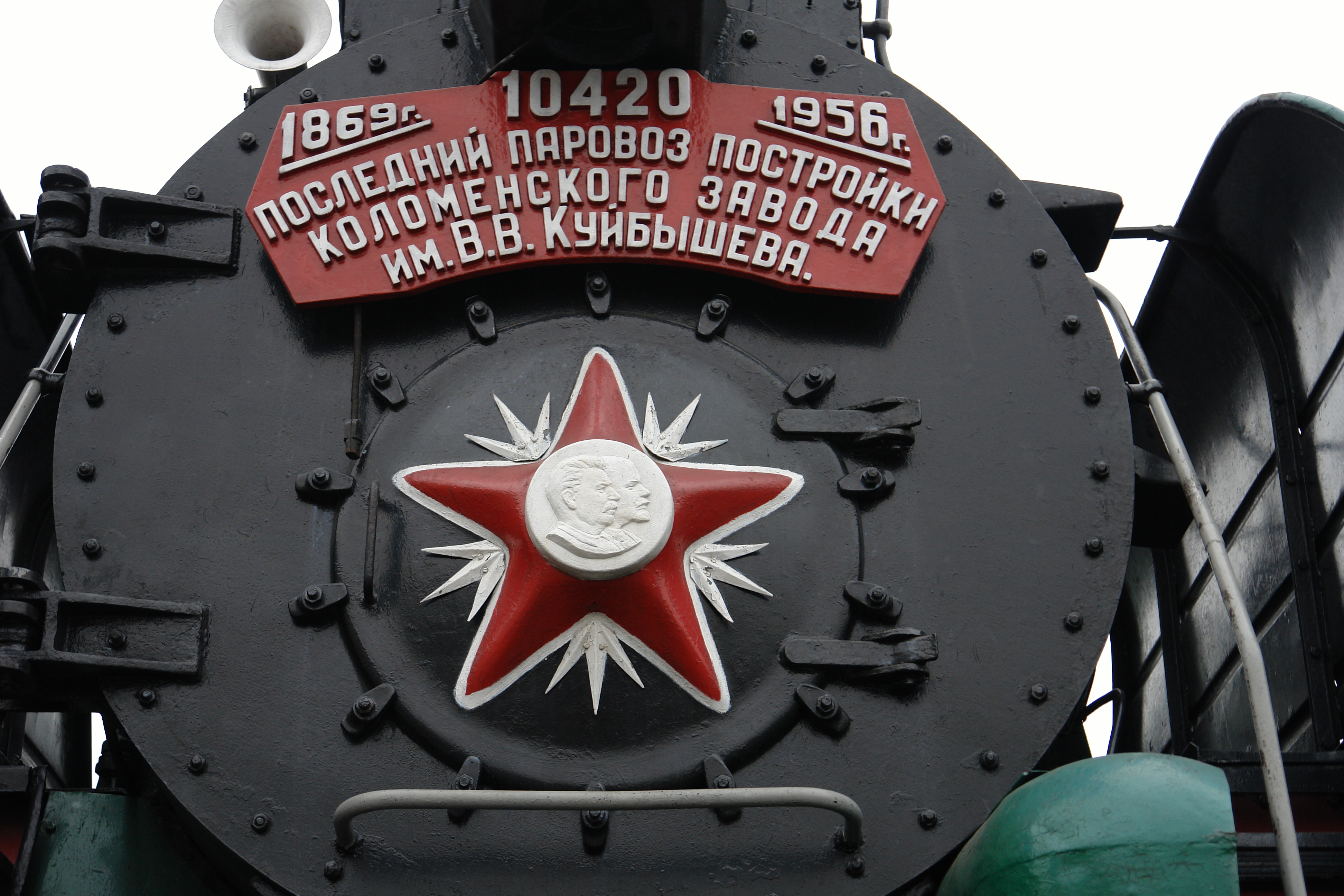 Passenger steam locomotive P36-0251 Weight in working order: excluding tender135 t including tender230 t Design speed125 kph Maximum power at wheel rim3077 hp Built by the Kolomna Steam-locomotive-building Works named afte V.V. Kuibyshev in 1956. It was the last steam passenger locomotive built in Russia. It worked on the Kuibyshev, Northern and Far Eastern railways. From 1982 it was used as a boiler at the Dal'vodremmash factory in Ussurisk. It was delivered to the museum in 1992.